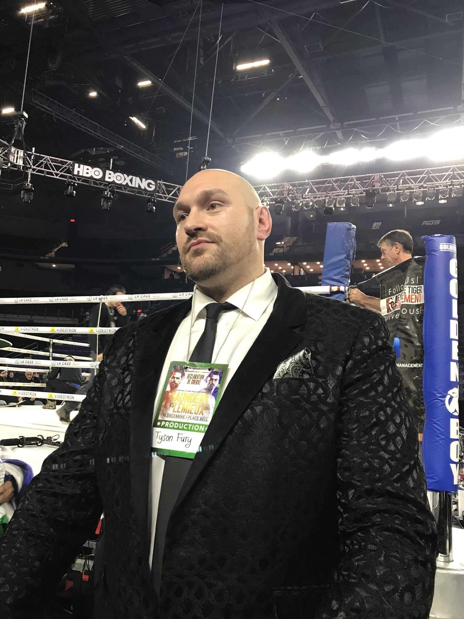 Tyson Fury talking to fans ringside after the Saunders Lemieux boxing event at Place Bell in Laval, Quebec, Canada on December 16th 2017